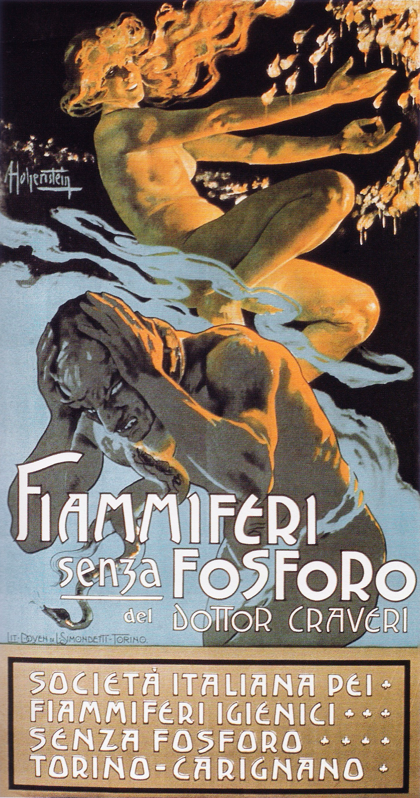 Advertising Poster: Doctor Craveri's Matches without Phosphorus (Italian society for the hygienic matches without phosphorus, Italy, Turin, Carignano).